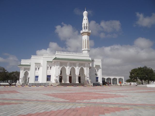 Mosque of Islamic Solidarity